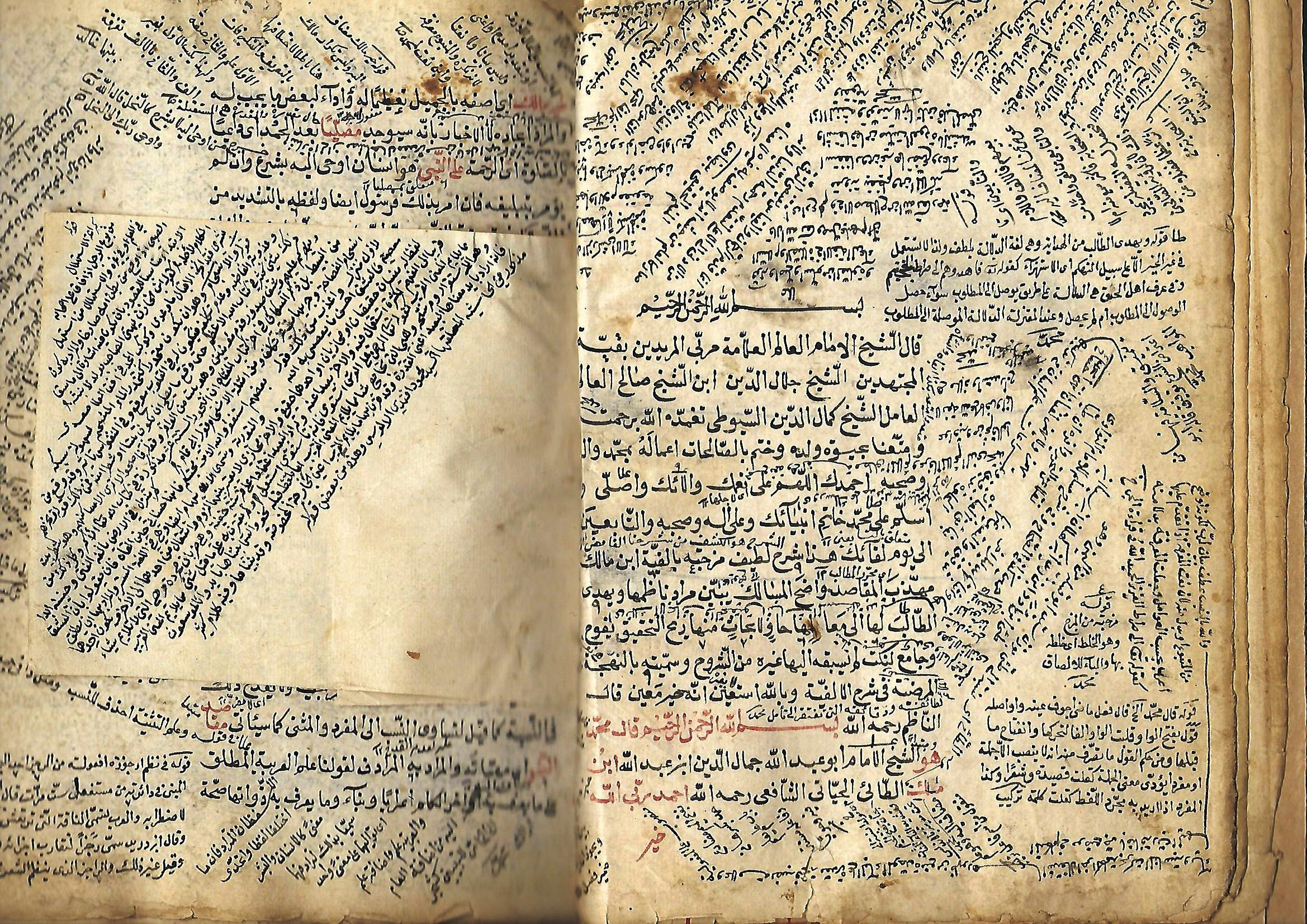 The first bage from the Explanation of Alfiya (Arabic: ألفية ابن مالك) is a rhymed book of Arabic grammar written by Ibn Malik in the 13th century, and its a part of Mullah Qasim Effendi Al-Mufti s collection